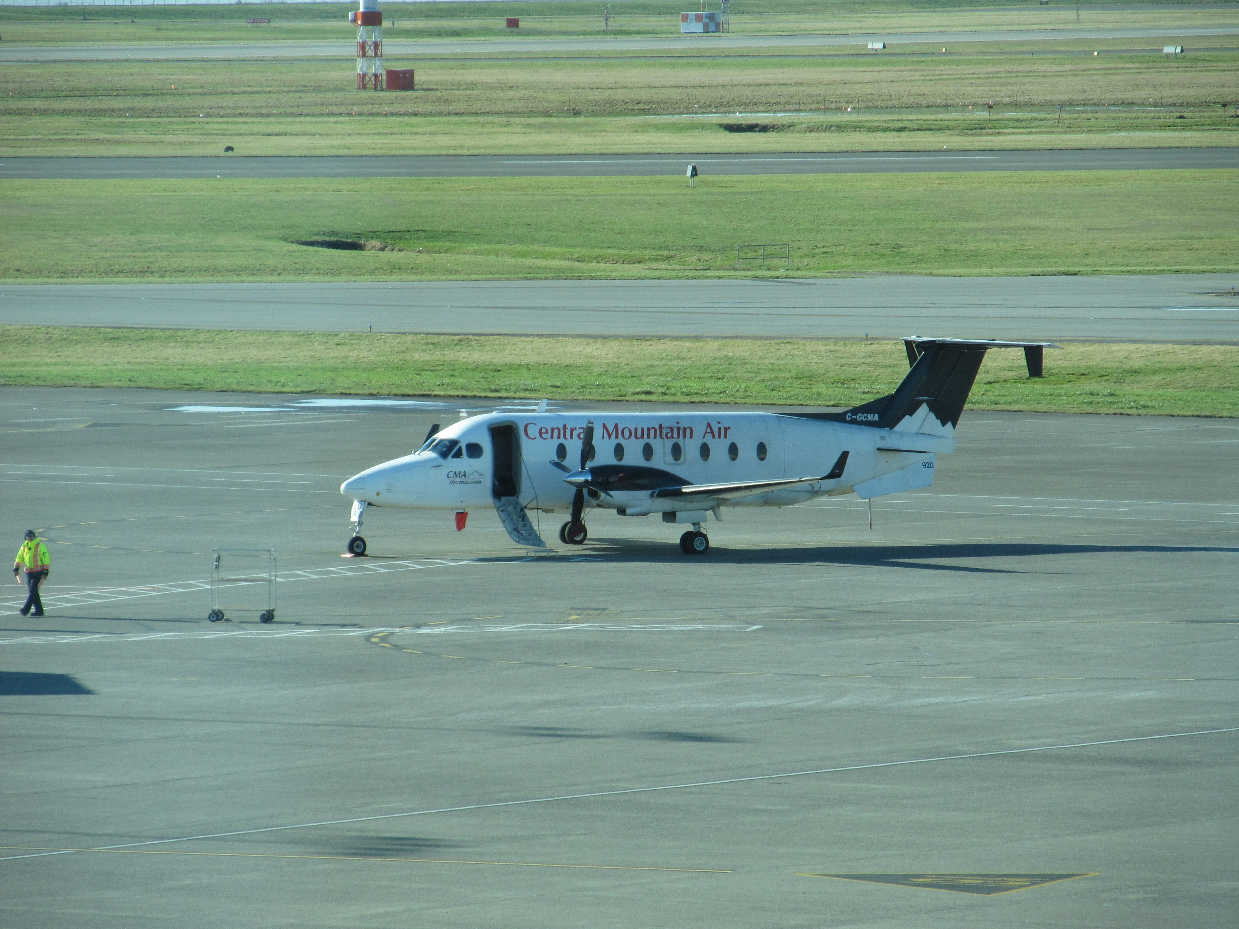 C-GCMA, a Beechcraft 1900D turboprop airplane operated by Central Mountain Air, photographed on the tarmac at Vancouver International Airport in Vancouver, British Columbia, Canada.